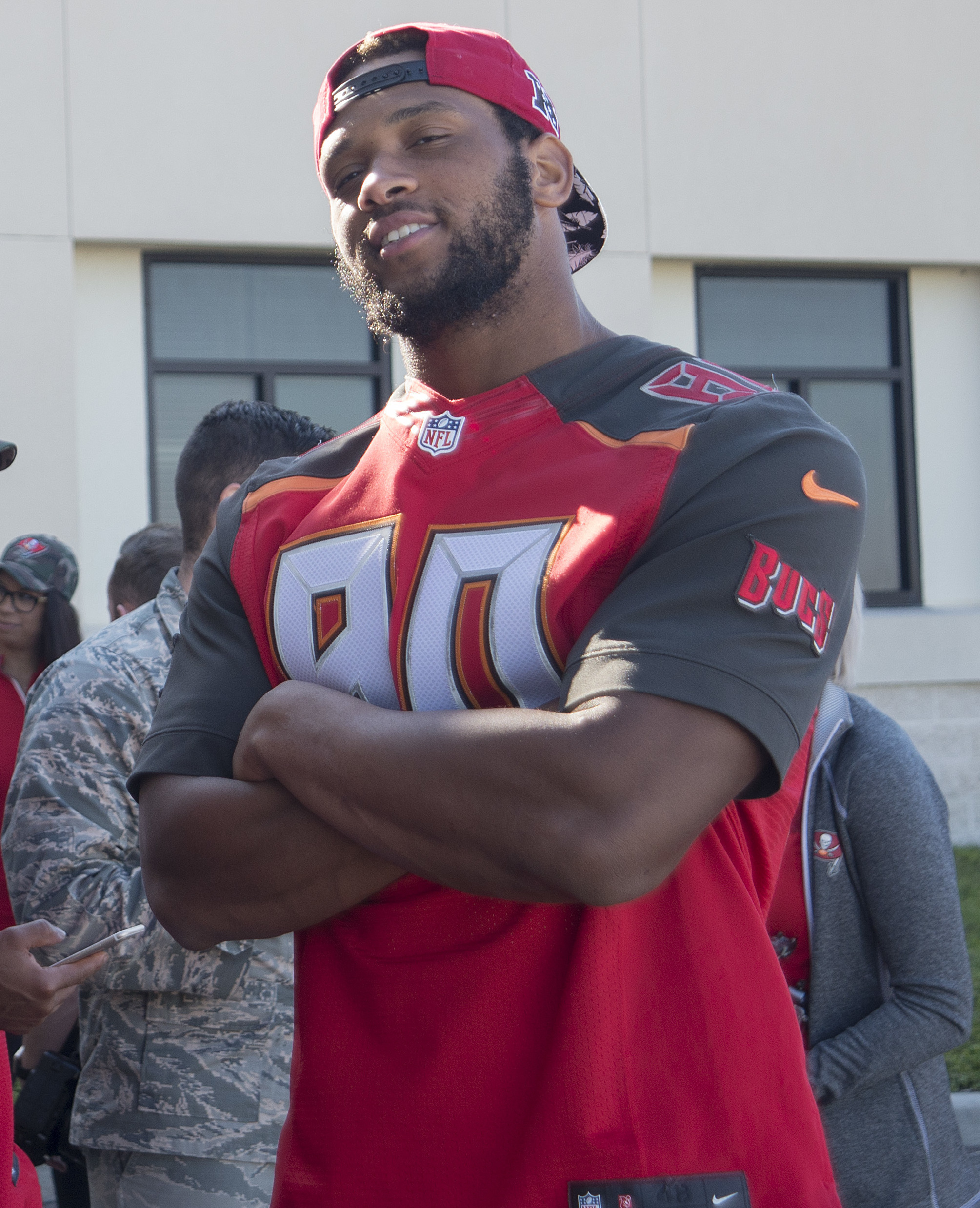 Tampa Bay Buccaneers quarterback Ryan Fitzpatrick and tight end O.J. Howard pause for a photo at MacDill Air Force Base, Fla., Oct. 30, 2018. Fitzpatrick, Howard and other players for the Buccaneers toured a KC-135 Stratotanker static display, visited U.S. Central Command and spent time with the 6th Security Forces Squadron defenders during their visit to MacDill. (U.S. Air Force photo by Airman 1st Class Ryan C. Grossklag)